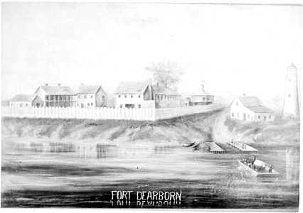 Painting of Fort Dearborn as seen from the north in 1816